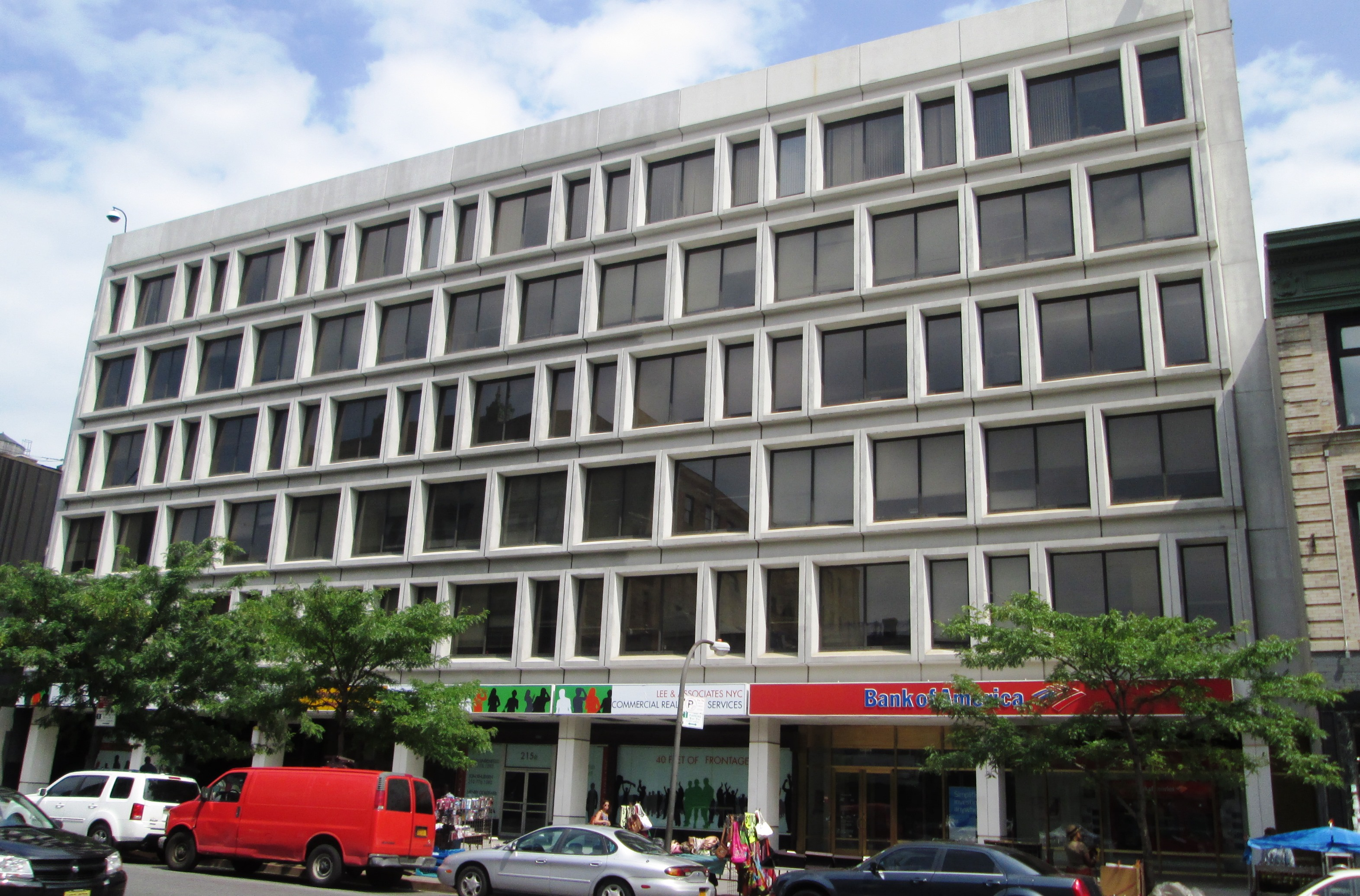 The Sydenham Hospital Clinic at 215 West 125th Street between Adam Clayton Powell Jr. Boulevard and Frederick Douglass Boulevard in the Harlem neighborhood of Manhattan, New York City, was built in 1971 as the Commonwealth Buildingand was designed by Hausman & Rosenberg. (Source: AIA Guide to NYC (5th ed.))